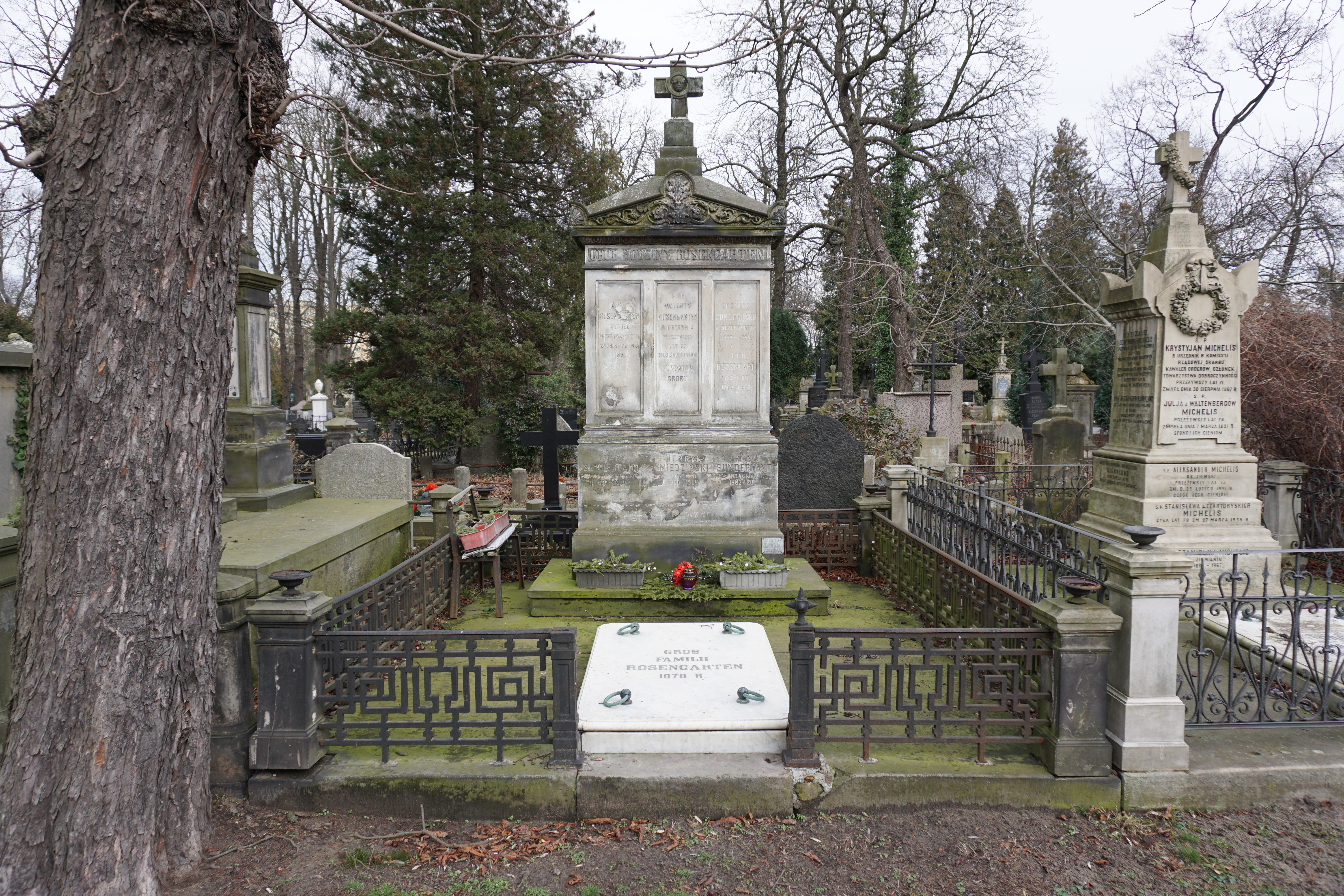 The grave of Jan Sunderland's at the Evangelical-Augsburg Cemetery in Warsaw (avenue 6, Grave 17)